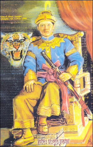 The first and greatest of the rulers of the Kingdom of Assam